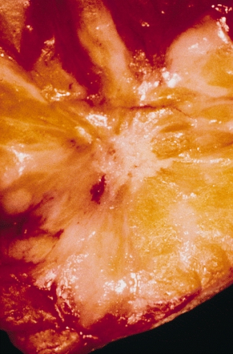 MAMMARY GLAND: RADIAL SCLEROSING LESION The irregular scar at the center of the lesion, representative of the area of dense fibrosis and elastosis, resembles a carcinoma.